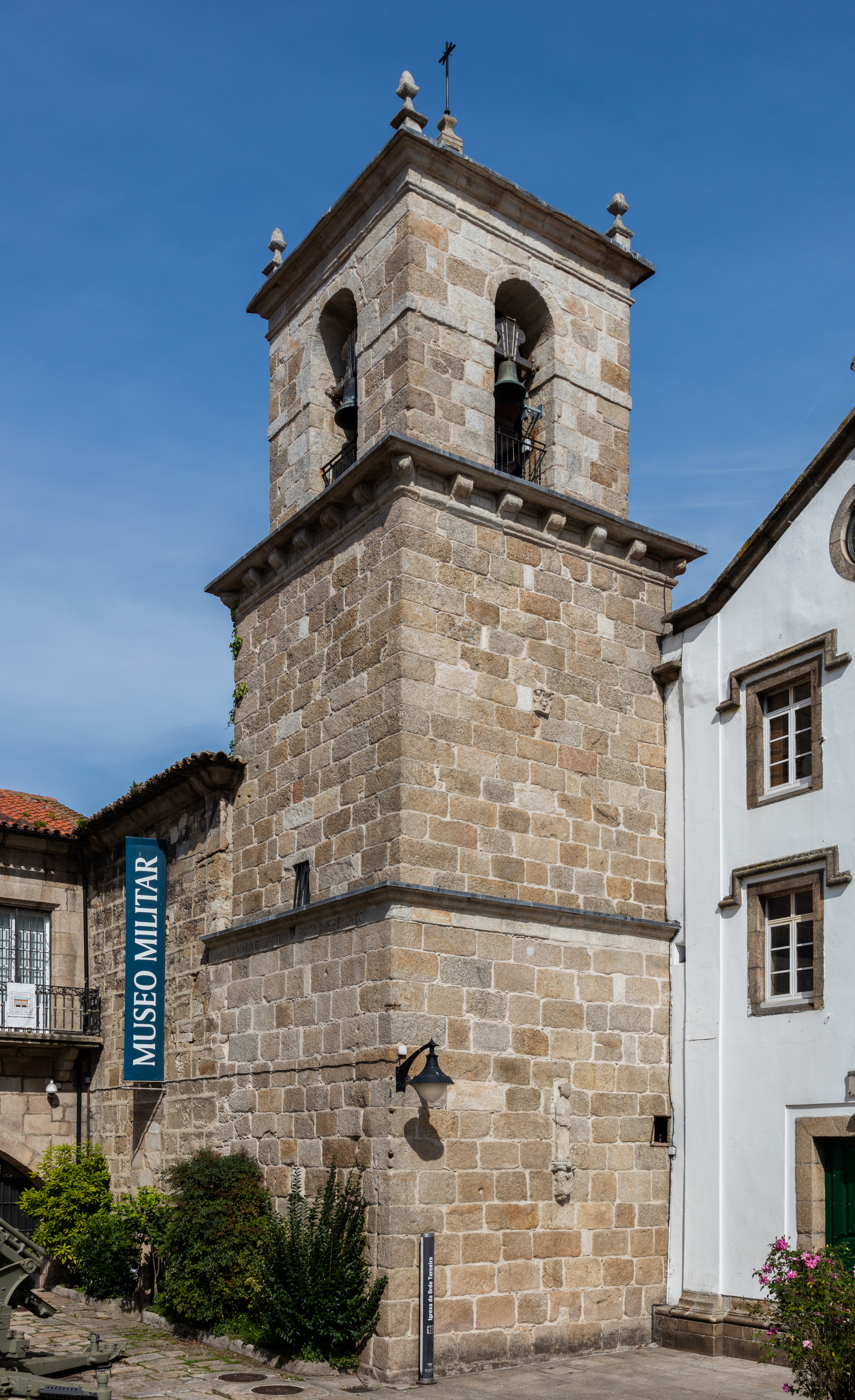 Church of the Third Order, A Coruña, Galicia, SpainGalego: Igrexa da Orde Terceira, A Coruña, Galiza, España.